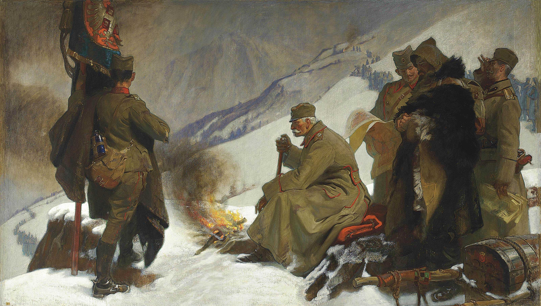 King Peter of Serbia retreating across the Albanian Mountains by British painter Frank O. Salisbury (1874–1962)